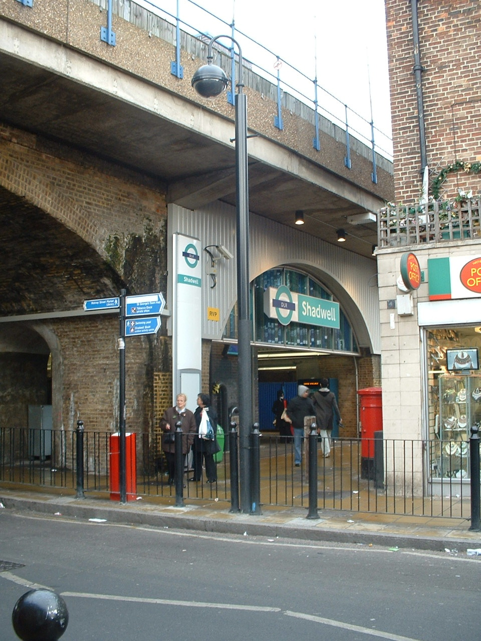 Entrance to Shadwell DLR station